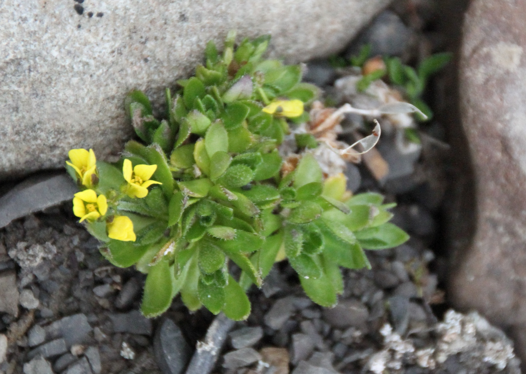 Saxifrage flowers observed at the island Spitsbergen - Svalbard. August 2012.